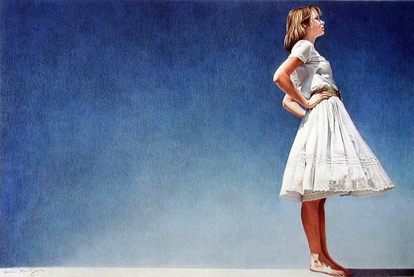 Colored Pencil Drawing by Ann Kullberg.